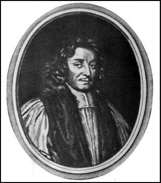 Portrait of John Wilkins (1614-1672)